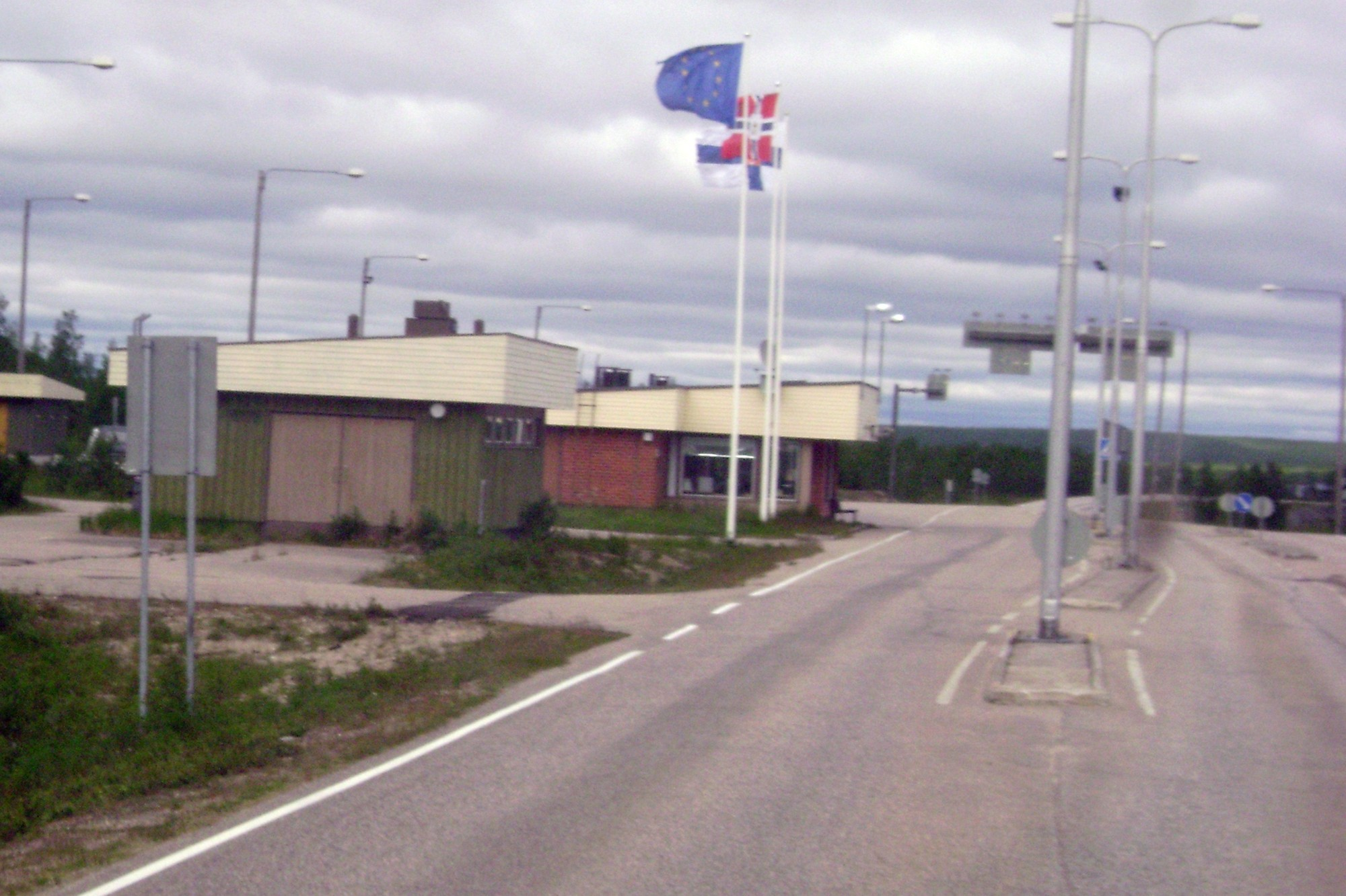 Kivilompolo border crossing between Finland and Norway